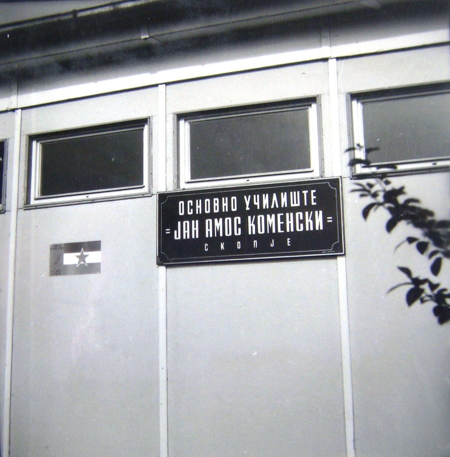 1963 Skopje earthquake: School Jan Amos Komenski donated by Czechoslovakia (CSSR) This media file is produced by Wikipedian in Residence in Category:Wikipedian in Residence at DARM in 2016.